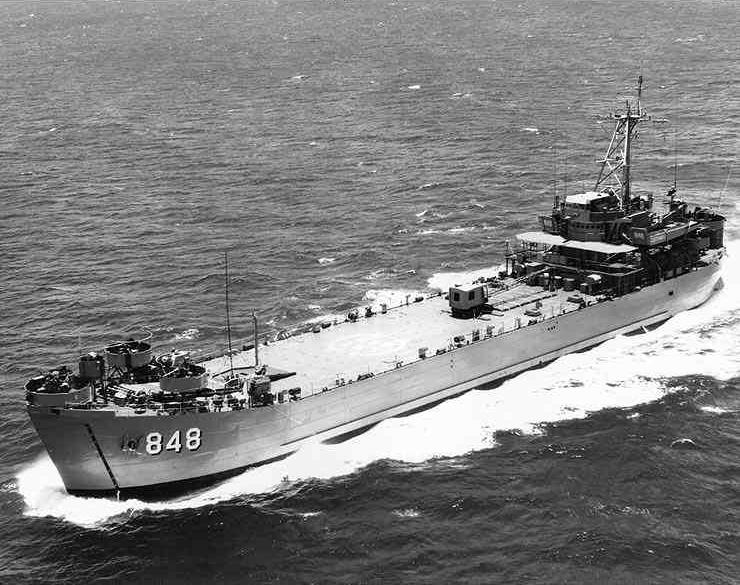 Jerome County (LST-848) operating off the coast of Oahu, Hawaii, 15 June 1968. Photo by PH2 Timothy F. O'Sullivan, of squadron VC-1. US Navy photo # NH 98370 from the collections of the US Naval Historical Center. Official U.S. Navy photo taken from